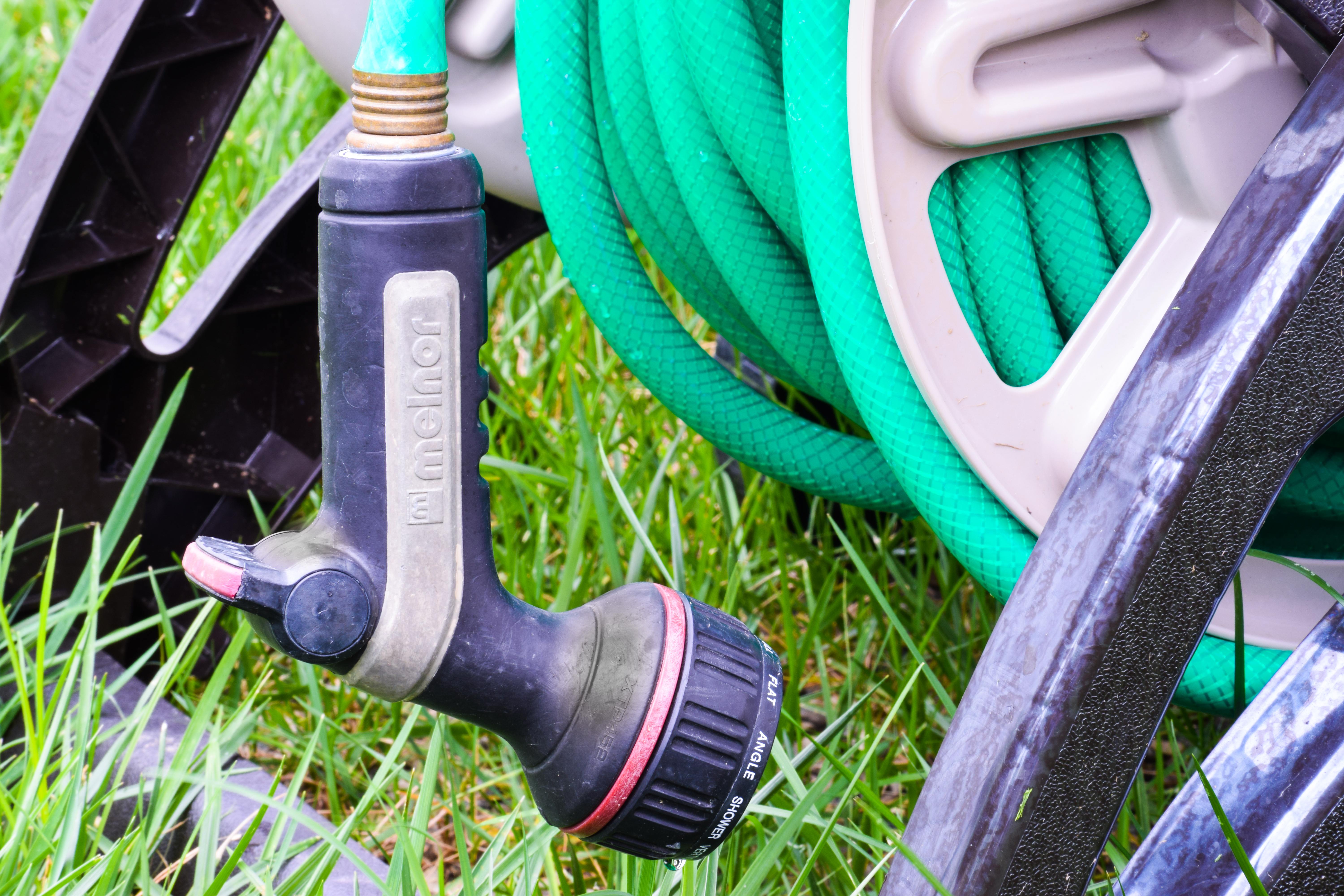 Hose reel with hanging water nozzle. Nozzle made by Melnor. On the nozzle tip you and read three settings in full: Flat, Angle, and Shower; and parts of two other settings. There is also a water drop on the bottom of the nozzle.